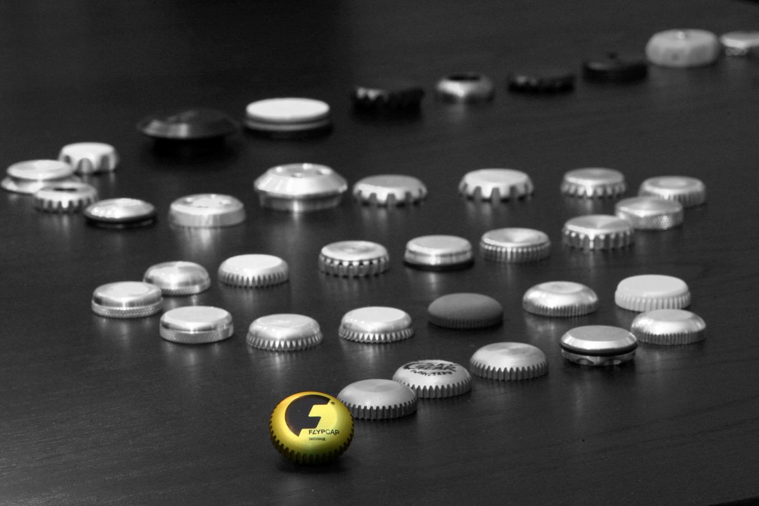 Prototype line of micro flying disc invention